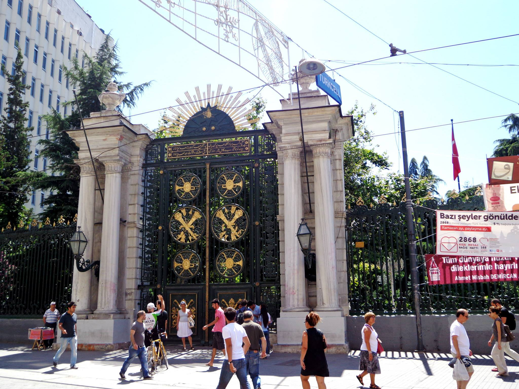 Galatasaray High School's main gate